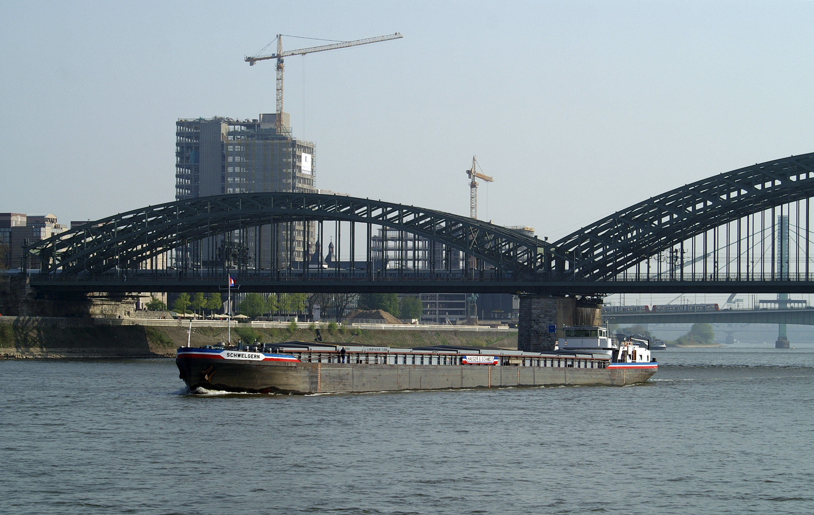 Barge Schwelgern in Cologne.